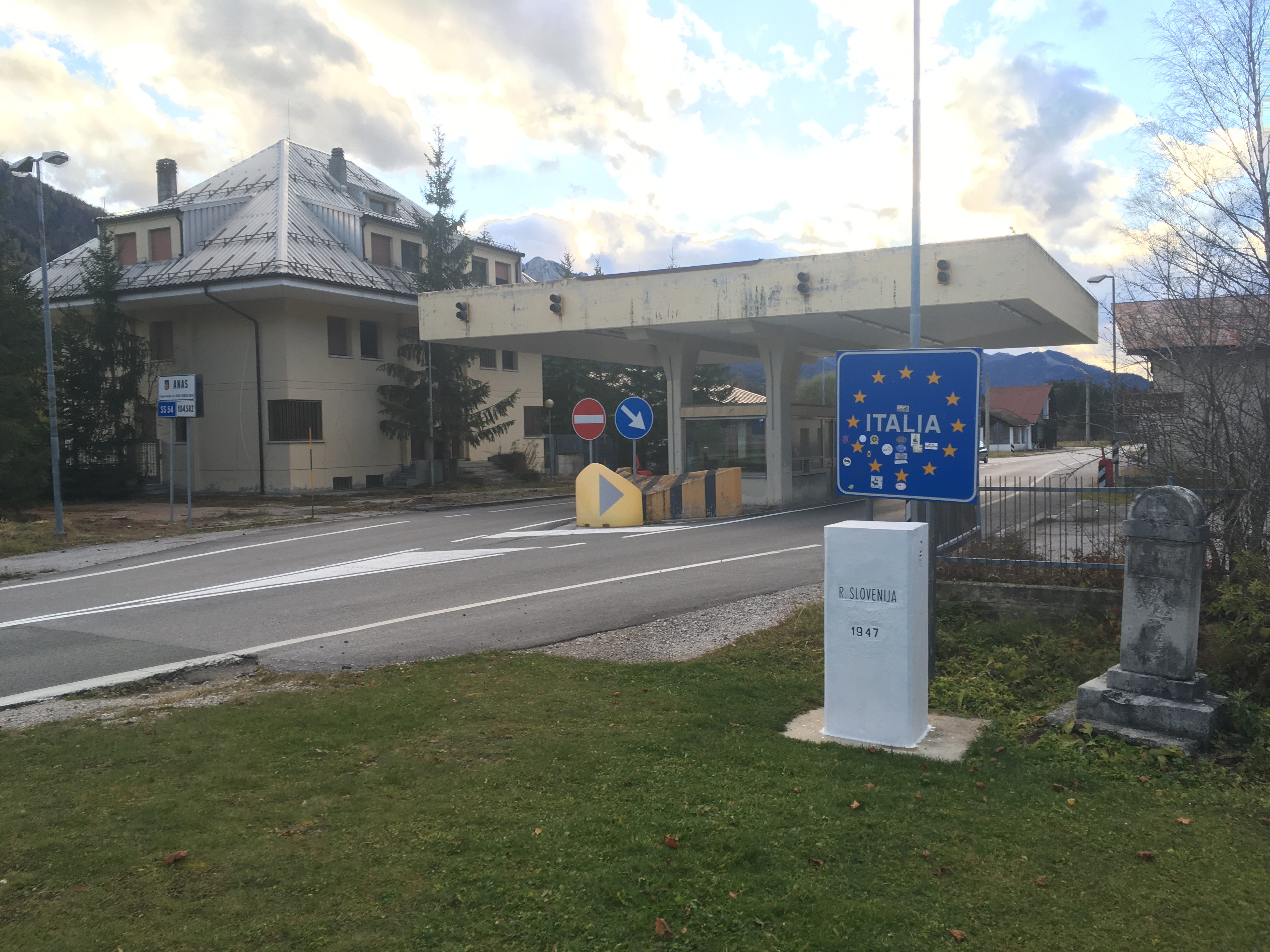 Ratece